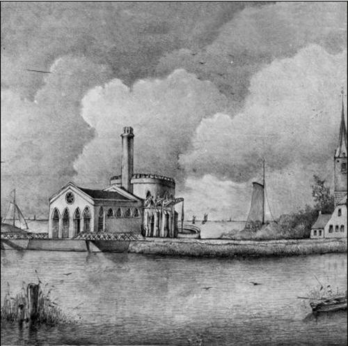 Pen and ink of pumping station De Leeghwater, Haarlemmermeer, Netherlands